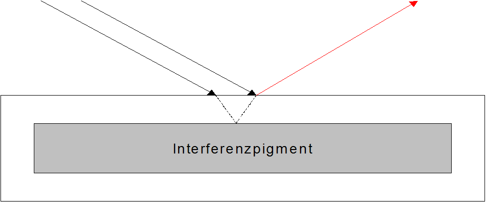 Behavior of an interference pigment with flat angle of light. The way of light is strongly extended.